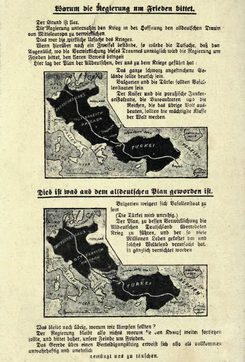 British WW1 propaganda in German, claiming that the "All-German plan" has failed as Bulgaria quits. Depicts the Bagdad railway line across turkey